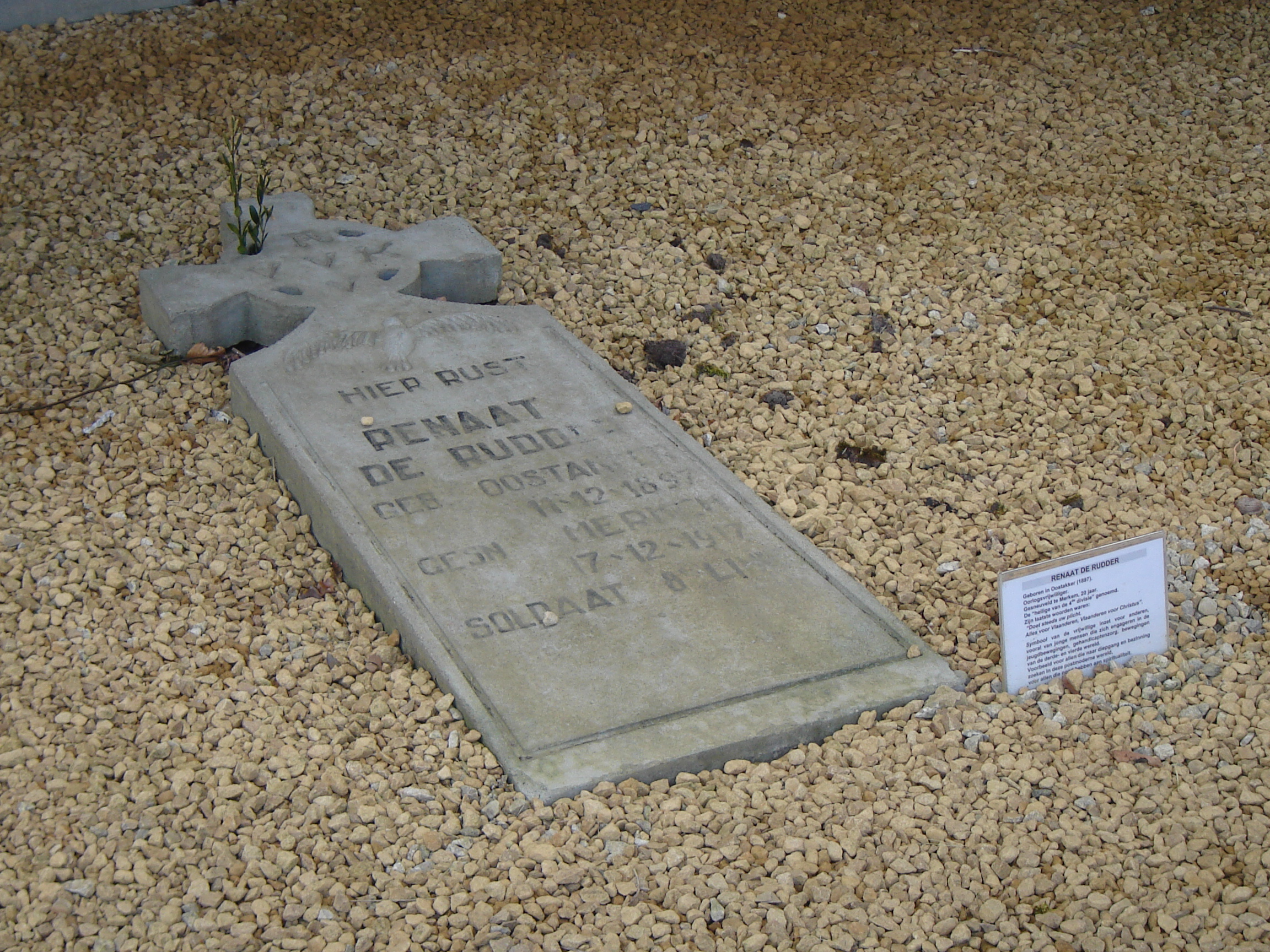 Gravestone of Renaat De Rudder in the crypt of the IJzertoren in Kaaskerke. Kaaskerke, Diksmuide, West Flanders, Belgium